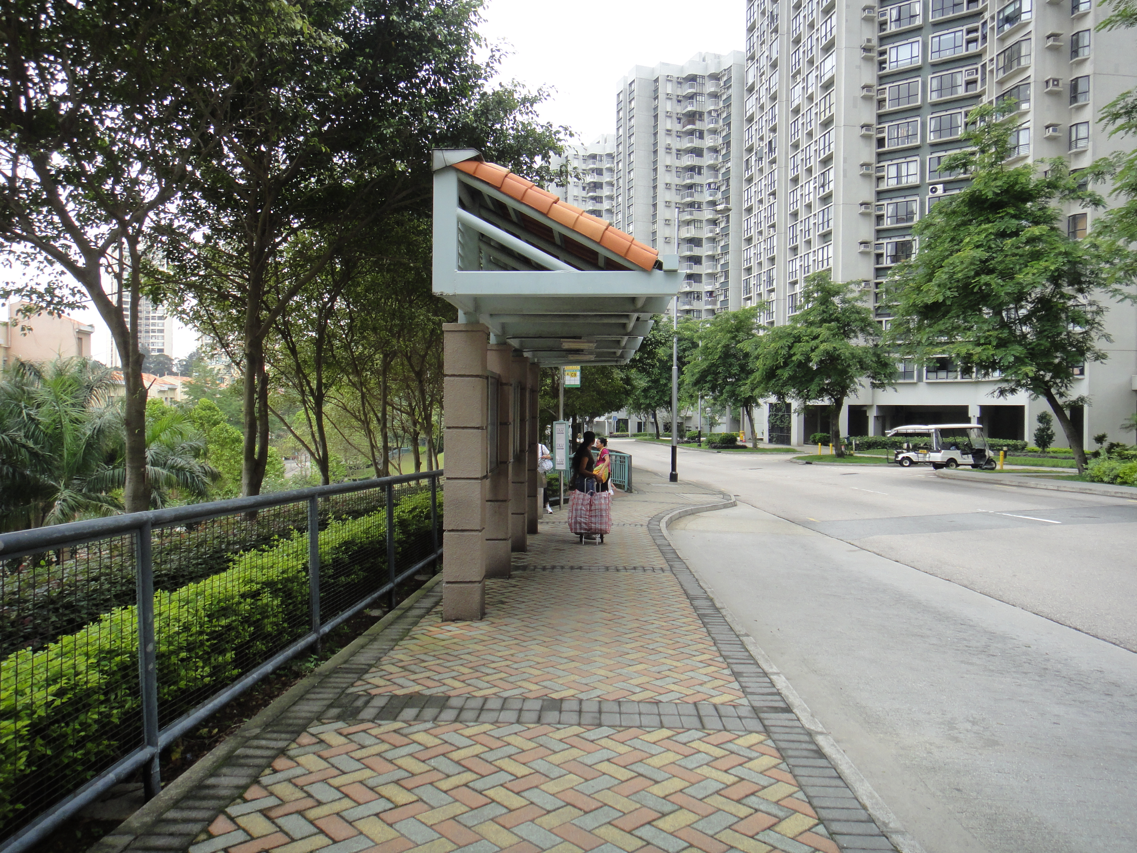 Greenvale vill bus terminal in Discovery bay road, Discovery Bay Lantau Isaland, Hong Kong